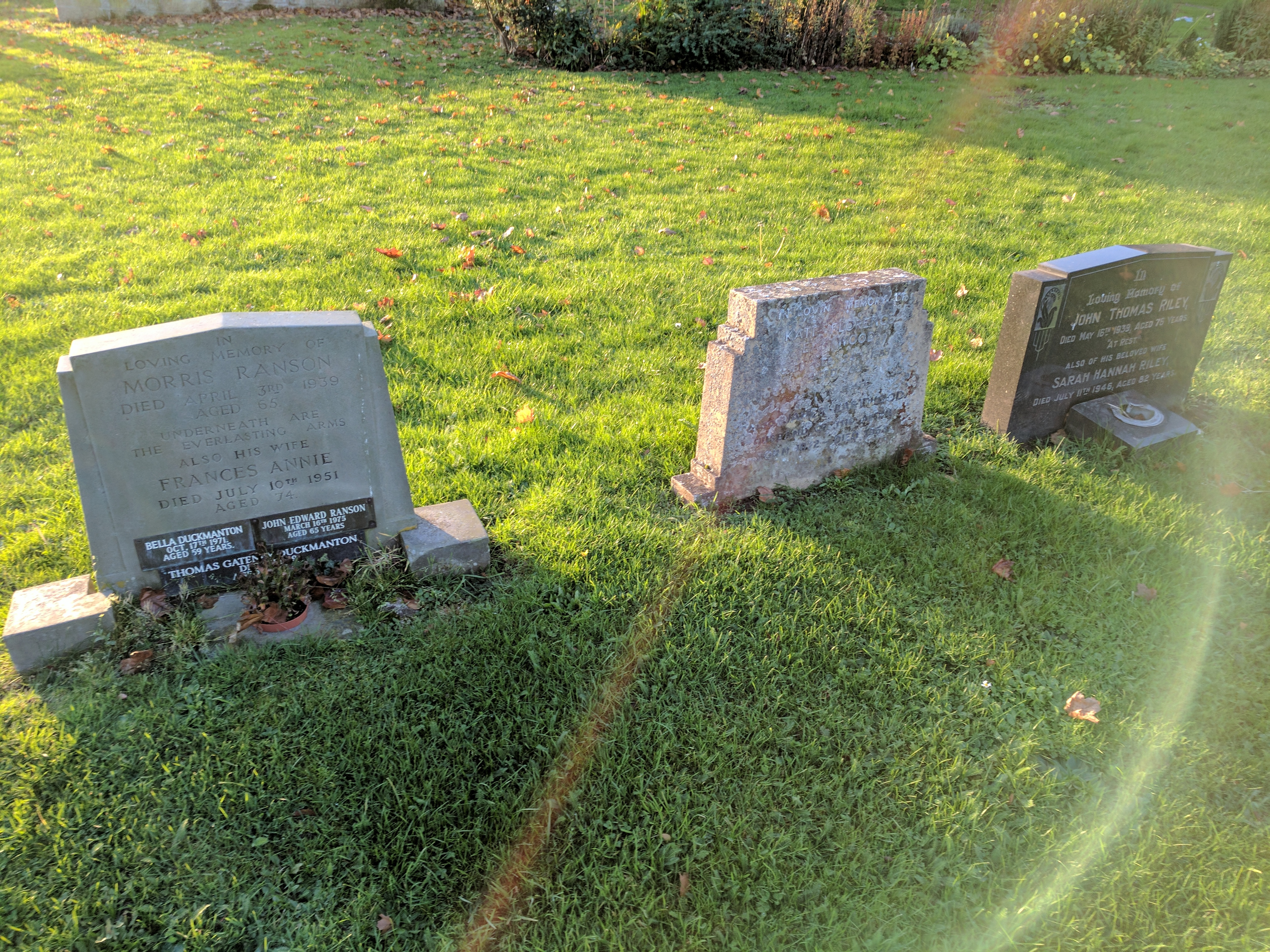 Group Of 3 Headstones Adjoining South Side Of Tower At Church Of St Peter And St Paul Wikidata has entry Q26553397 with data related to this item.